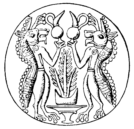 Minoan Genius - a mythological beast. Genii performing libation over an altar -- This image was published in Russia in 1914.